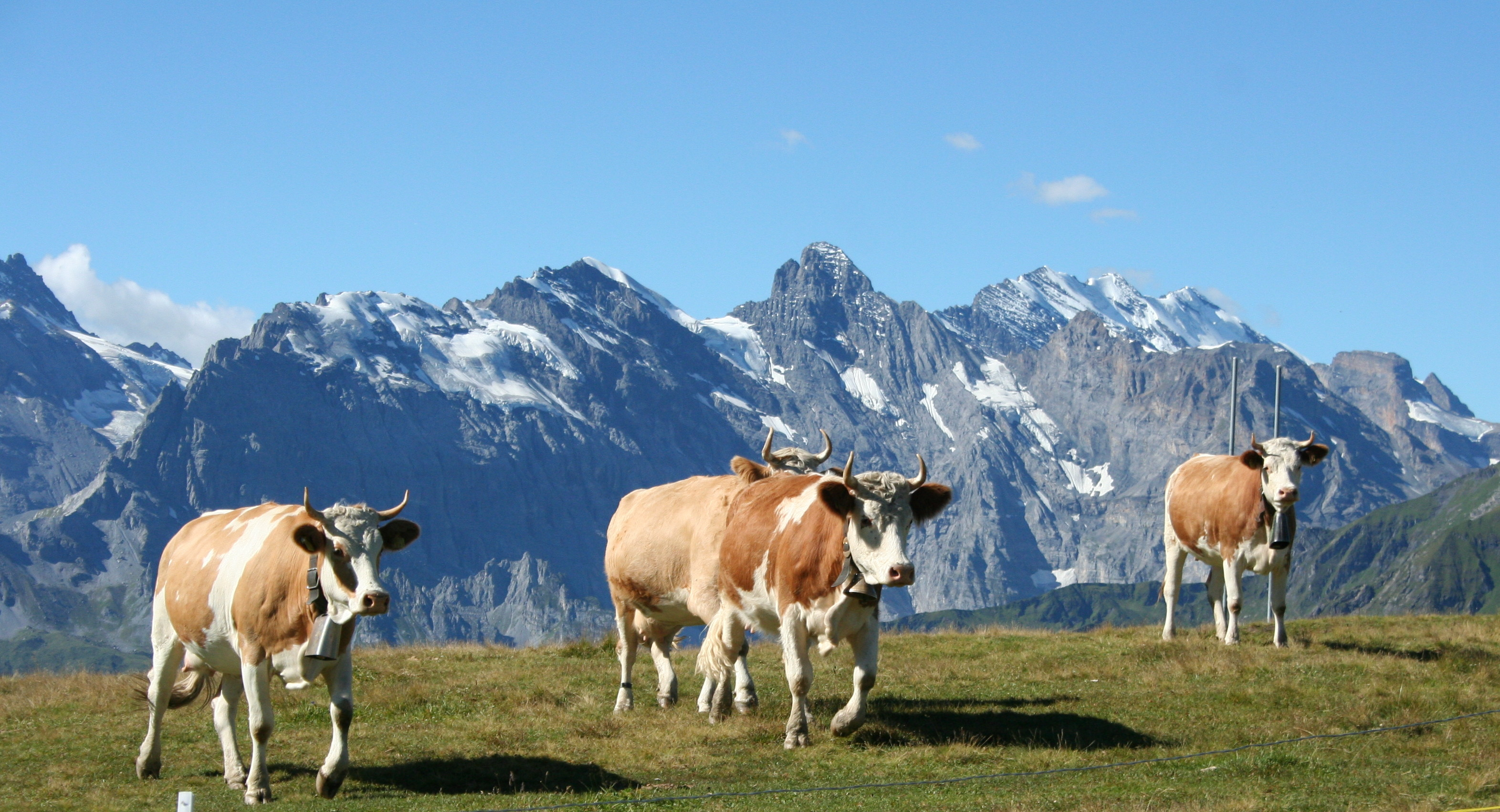 beautiful Swiss cows